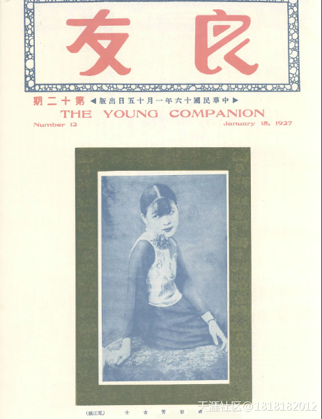 Actress Jiang Naifang (蒋耐芳) on the cover of Liangyou magazine #12.